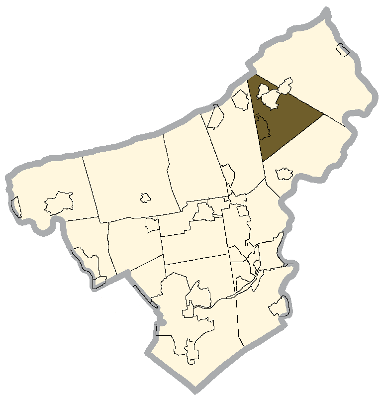 Washington Township shaded on the Northampton county map.